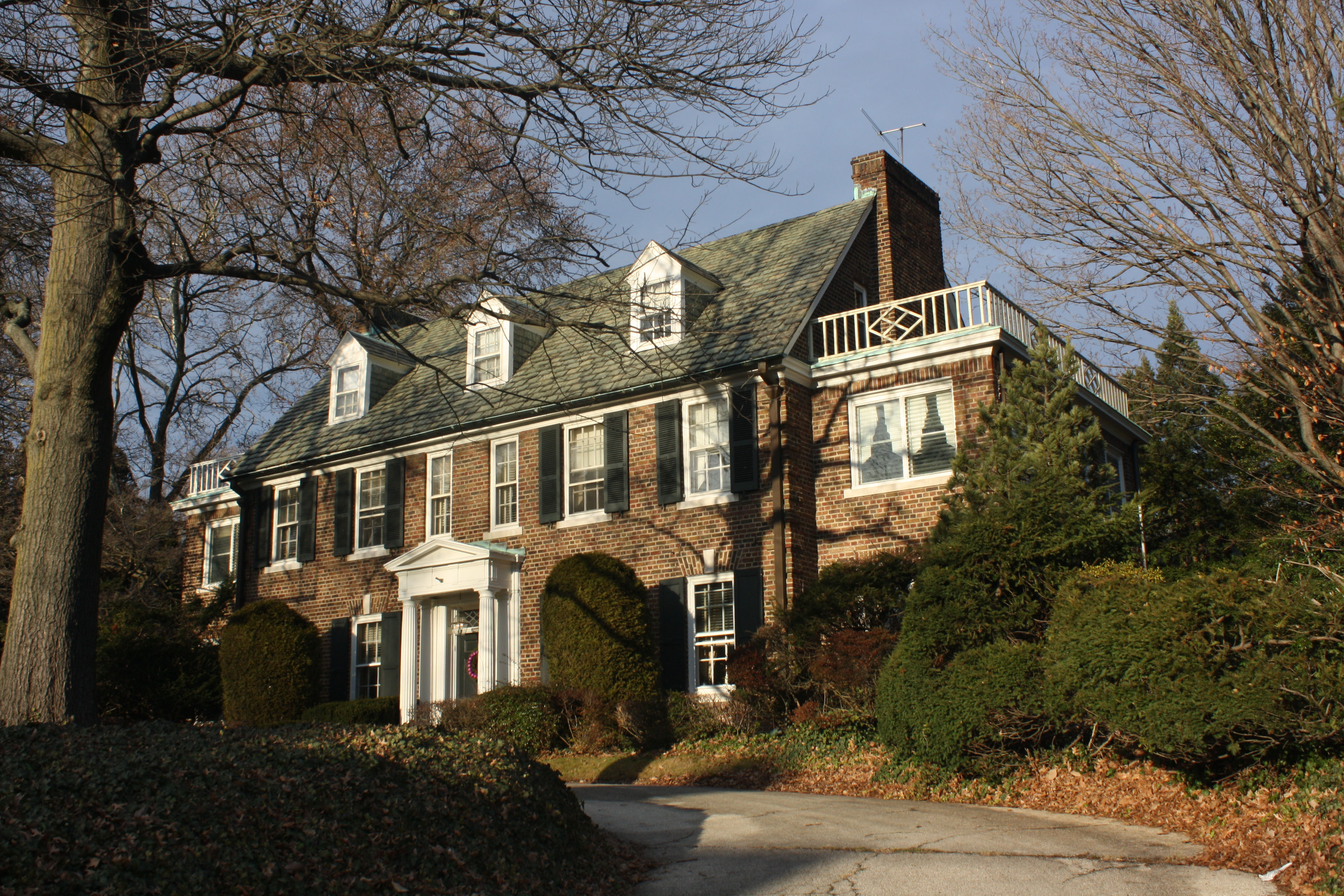 The Kelly Family House in East Falls section of Philadelphia (3901 Henry Avenue) was built by John B. Kelly, Sr. in 1929. Grace Kelly, actress and Princess of Monaco grew up here. Here Prince Rainier III, Prince of Monaco proposed her in 1955 Christmas.